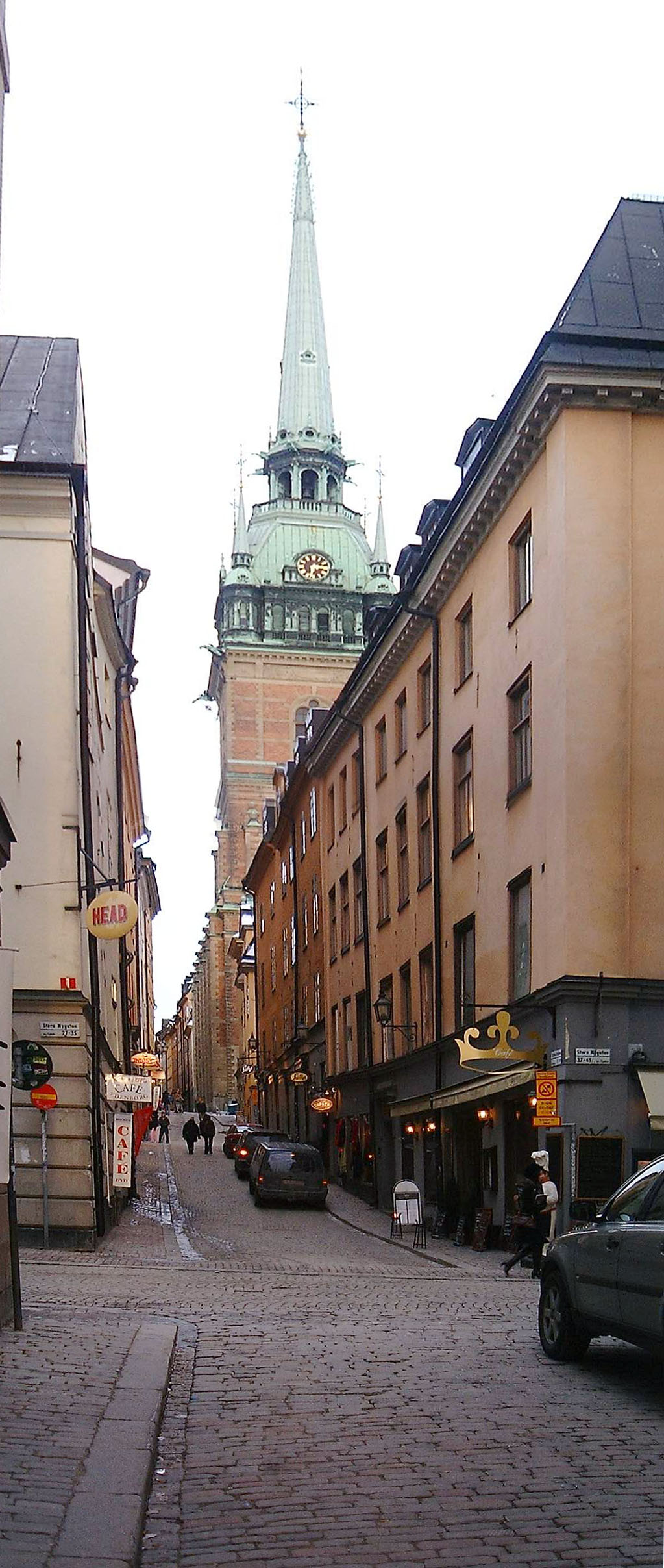 Tyska Brinken, Stockholm, in February 2007. Composite of three photos.